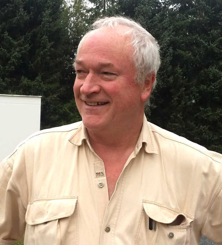 Gert Winkelmeier, german politician from the (left wing) party "die Linke"